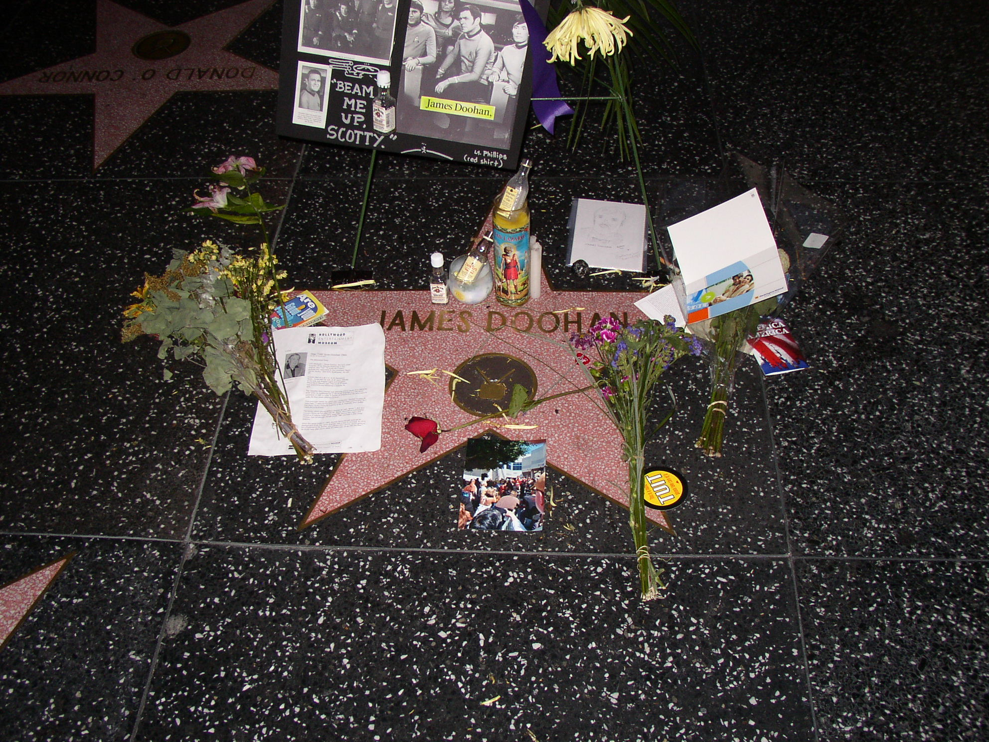 A photograph of James Doohan's Hollywood Walk of Fame star, shortly after his death. This photograph was captured by AllyUnion on July 21, 2005. The star is located outside of the Hollywood Galaxy.